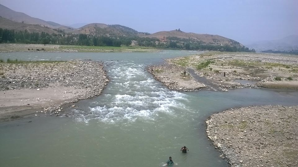 pankorha river while travelling from talash to timergara